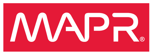 MapR Logo.